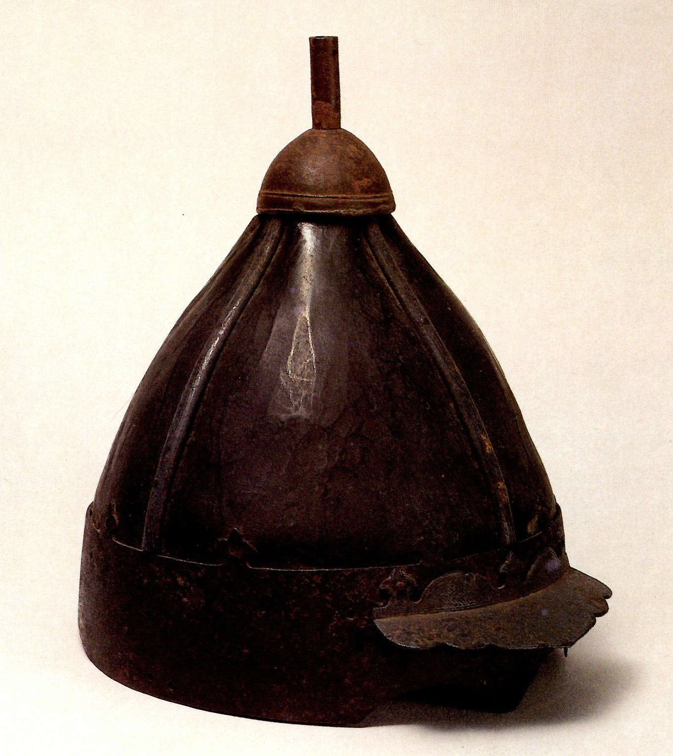 The black helmet of a Mongolian army